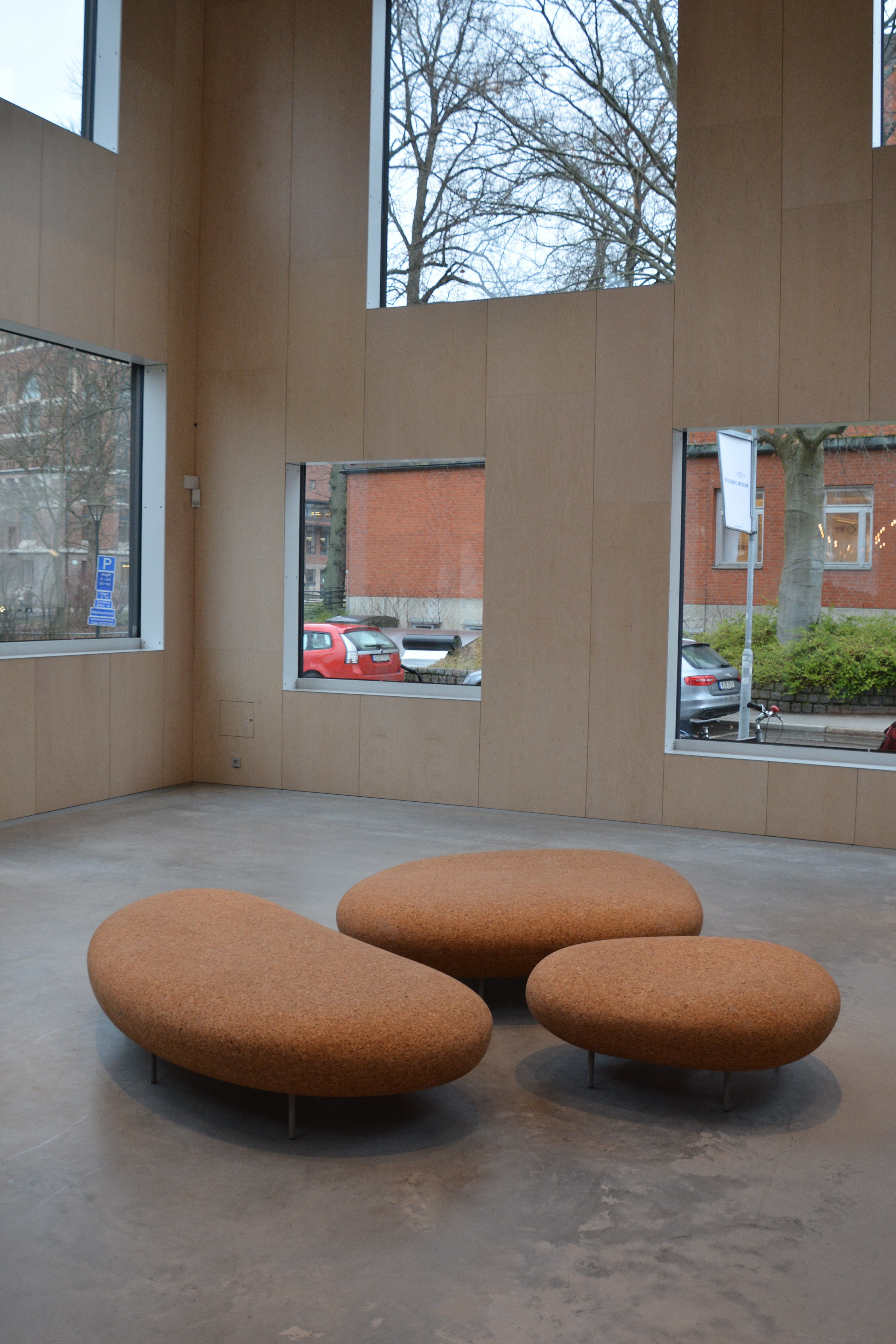 Skissernas museum. Foaje med sittplatser i betong med korklädsel.